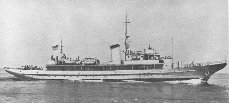 USS Tourmaline (PY 20), 23 November 1944